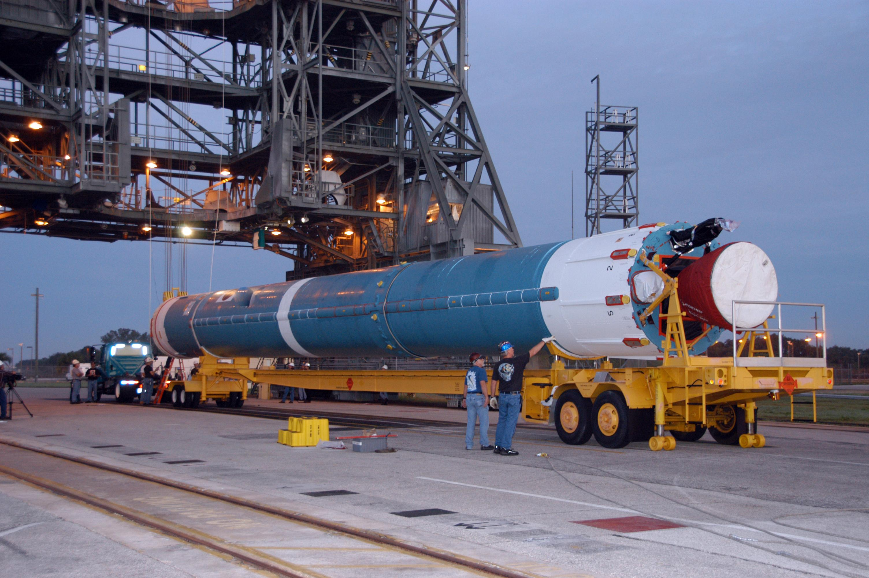 The first stage of a United Launch Alliance Delta II rocket moves into place in front of at the mobile service tower on Launch Pad 17-B at Cape Canaveral Air Force Station in Florida. The rocket will be raised to a vertical position and lifted into the tower. The rocket is the launch vehicle for the THEMIS spacecraft, consisting of five identical probes, the largest number of scientific satellites ever launched into orbit aboard a single rocket. This unique constellation of satellites will resolve the tantalizing mystery of what causes the spectacular sudden brightening of the aurora borealis and aurora australis - the fiery skies over the Earth's northern and southern polar regions. After the first stage is in the mobile service tower on the pad, nine solid rocket boosters will be placed around the base of the first stage and attached in sets of three. THEMIS is scheduled to launch aboard the Delta II at 6:07 p.m. EST on Feb. 15.